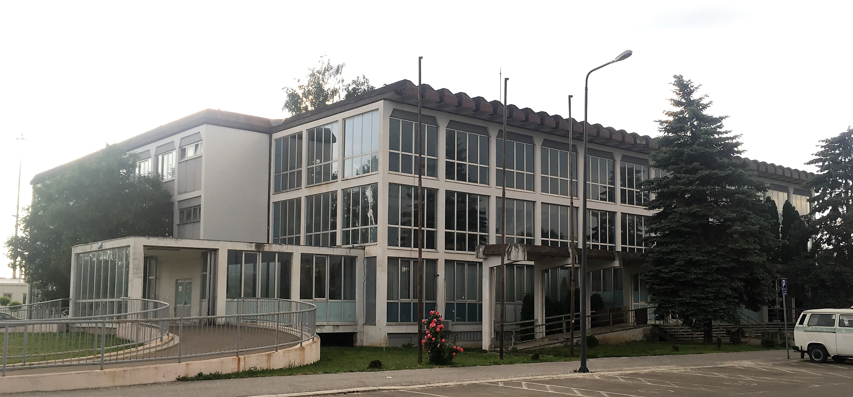 Veroljub Atanasijevic Polyclinic with specialist services Group Zastava 1978, Main Entrance, Side view, Kragujevac, Serbia